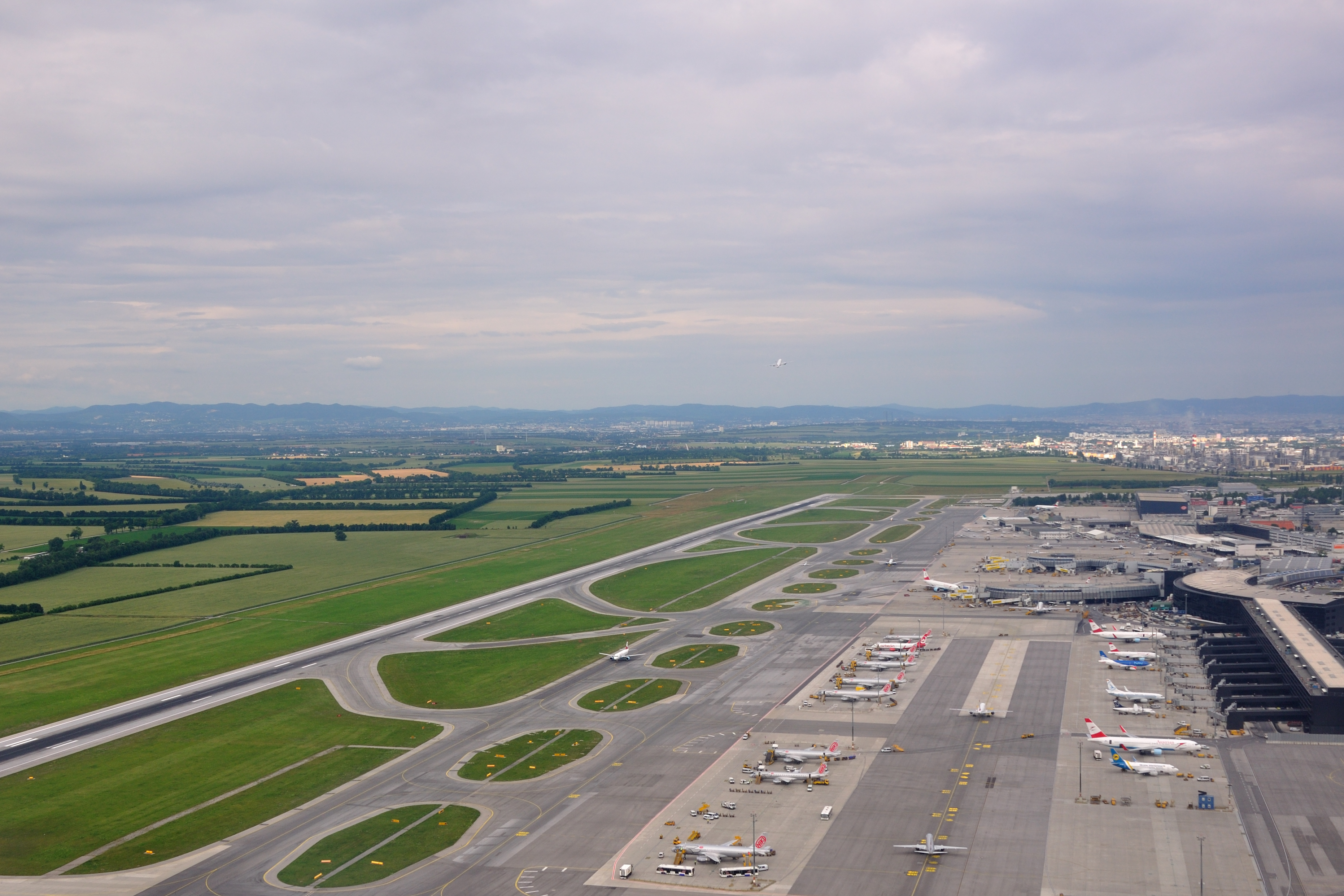 Austria, climbing out of Wien-Schwechat